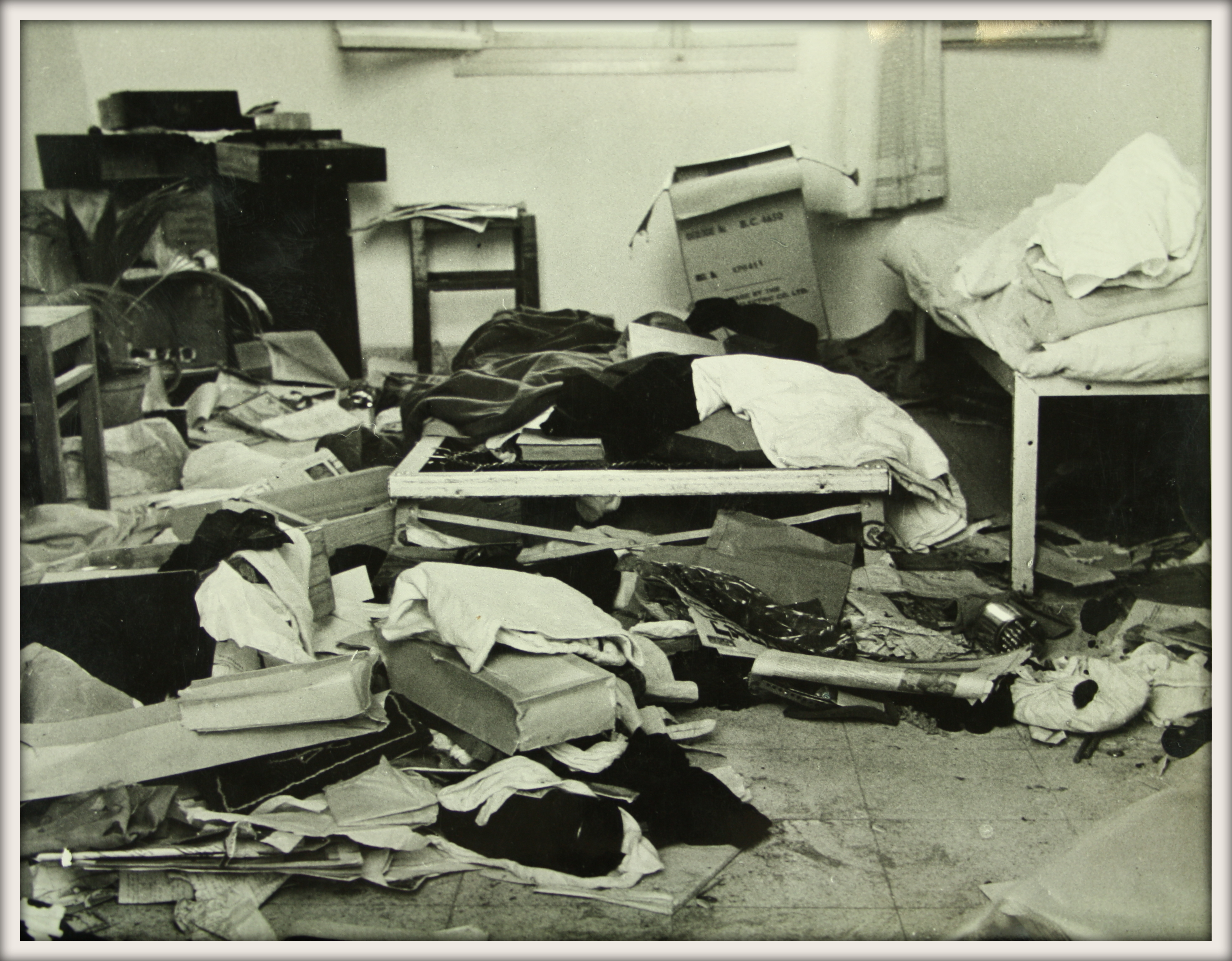 A room in Kibutz Yagur after Operation Agatha. Photographs in the National Library of Israel.